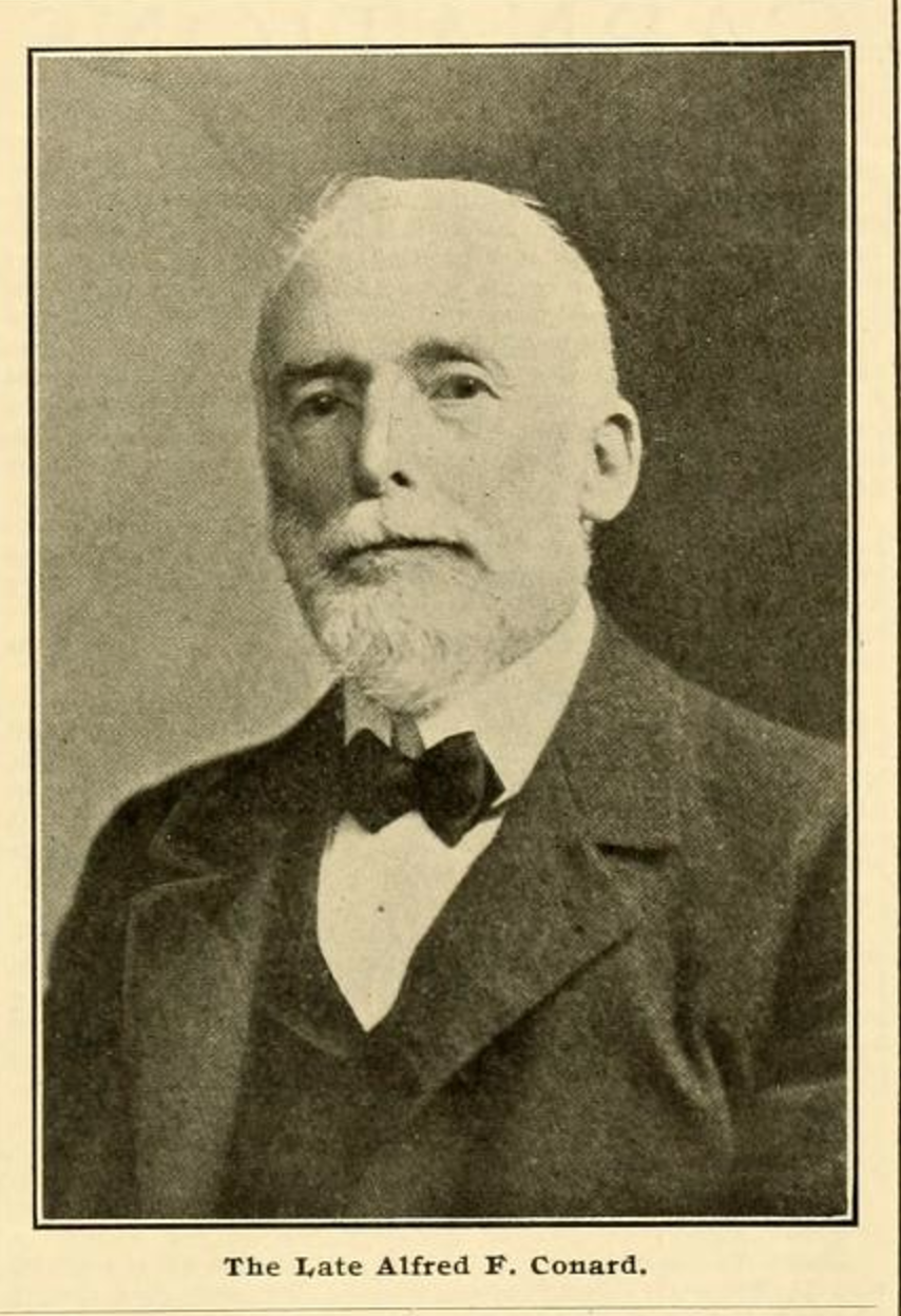 Photograph of Alfred F Conard, horticulturalist